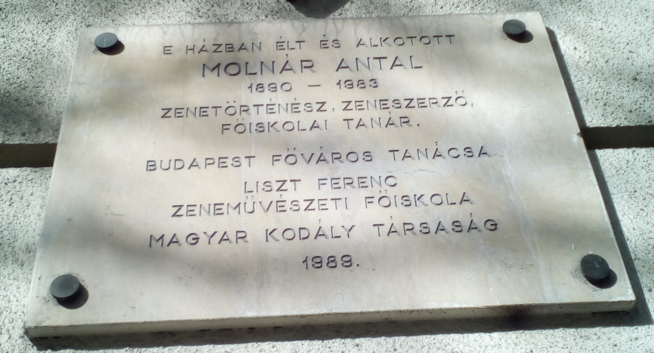 Antal Molnár (music historian) commemorative plaque in Budapest District XI, Karinthy Frigyes Street No 14.